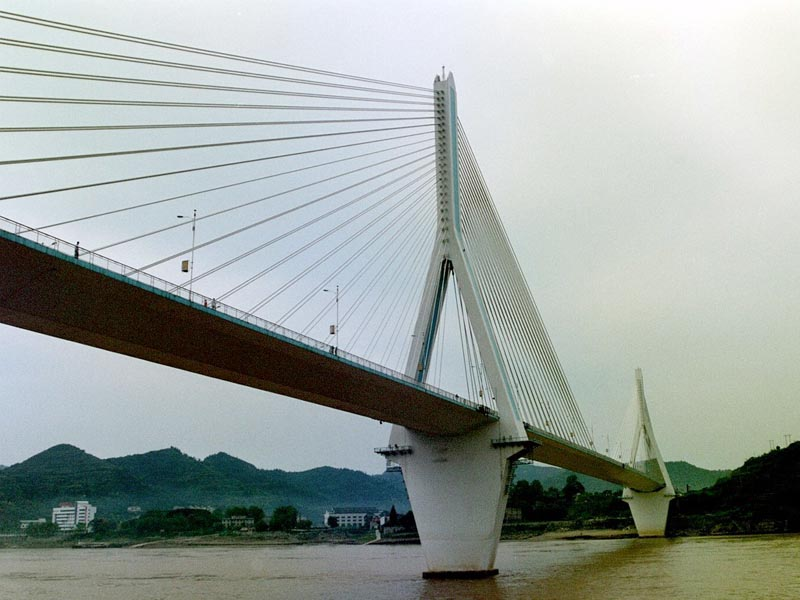 Cable stayed bridge over the Chang Jiang (Yangtze) river at the downstream approach to the Gezhouba Dam locks. This is a triple tower bridge with the central tower higher and supporting longer spans of the bridge. Picture taken late September, 2002 For bridge article. Image by User:Leonard G.